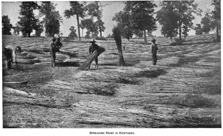 Black-and-white photograph of workers spreading (harvesting) hemp in a Kentucky hemp field circa 1895.